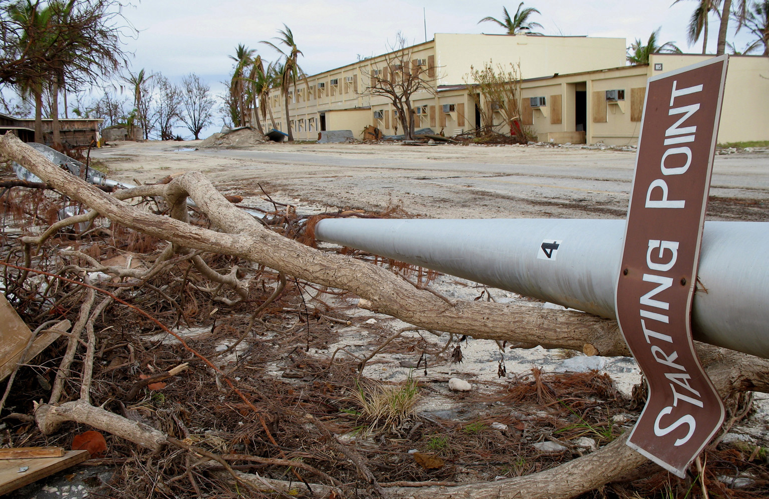 Debris and wreckage line the streets of the "downtown" area of Wake Island on Sept 14, 2006. Super Typhoon Ioke swept through on Aug 31 with wind speeds of 155 mph and gusts at 190 mph. A team of civil engineers and COMM experts deployed to the atoll from Hickam Air Force Base, Hawaii, to estimate the extent of the damage left by the category 5 storm. (U.S. Air Force photo / Tech. Sgt. Chris Vadnais) Other information N/A